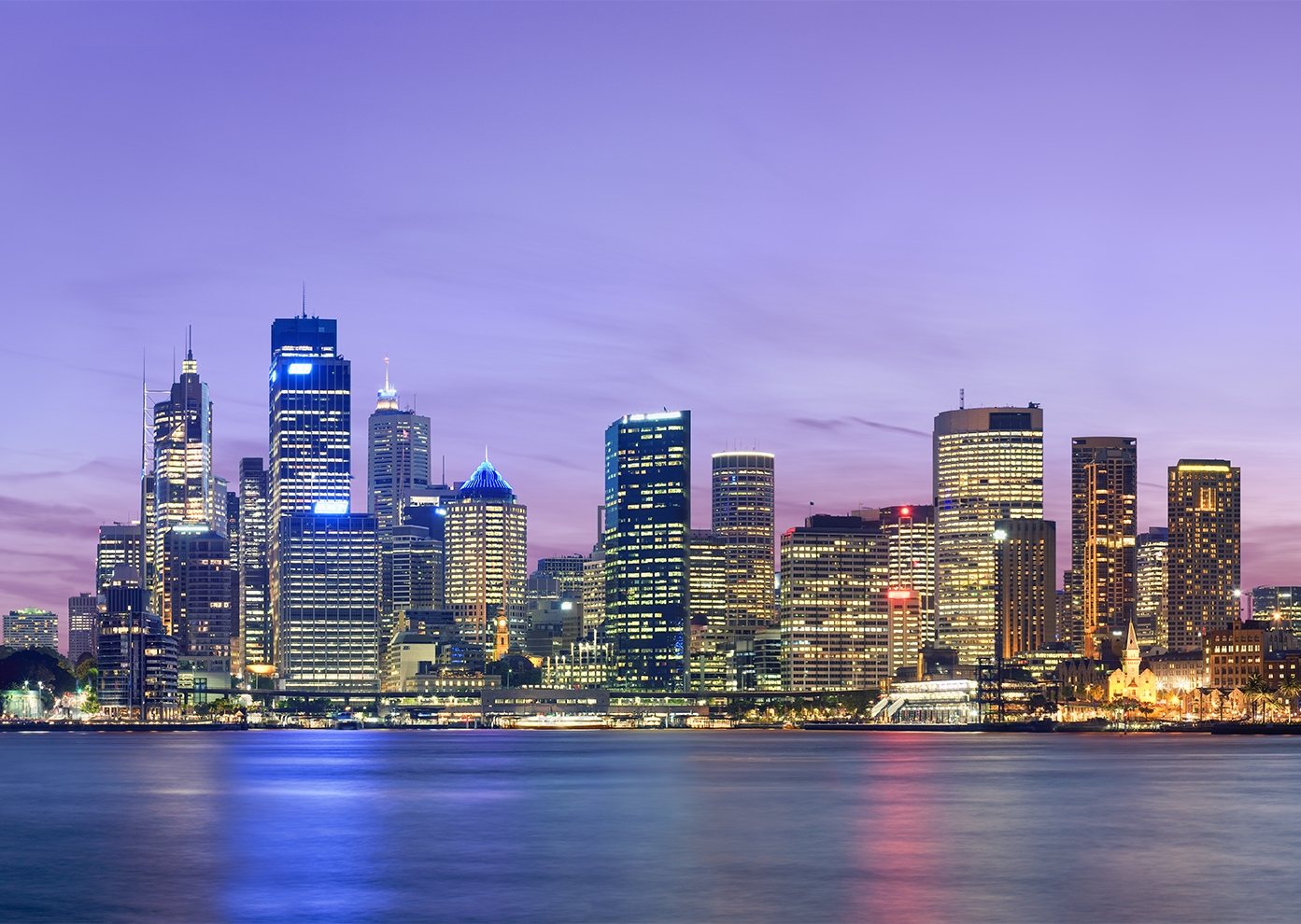 A panoramic view of the Sydney skyline as viewed across Sydney Harbour from Kirribilli. Taken by myself with a Canon 5D and 100mm f/2.8 lens. This is an exposure blended image.